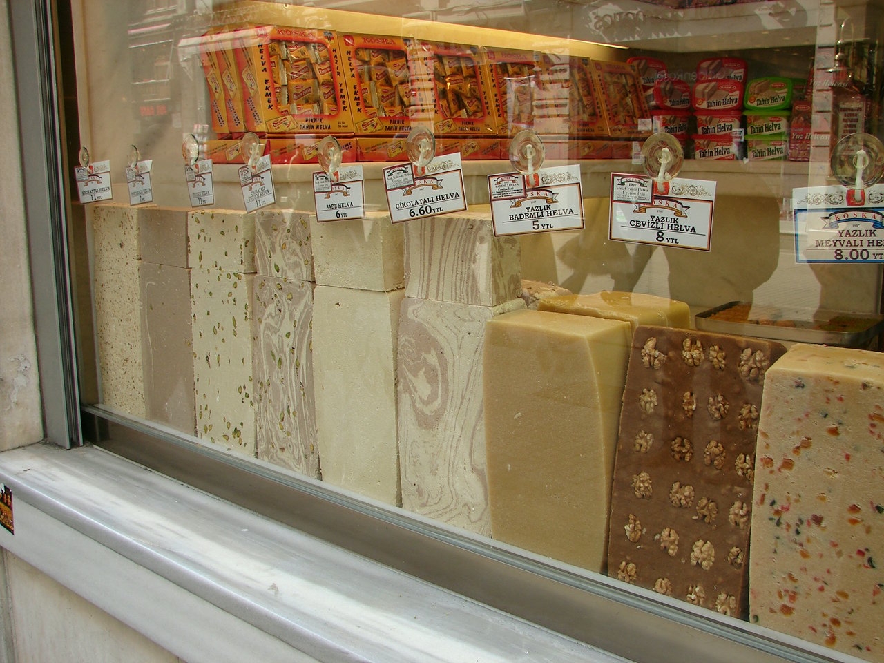 Halva display in an Istiklal Caddesi shopfront